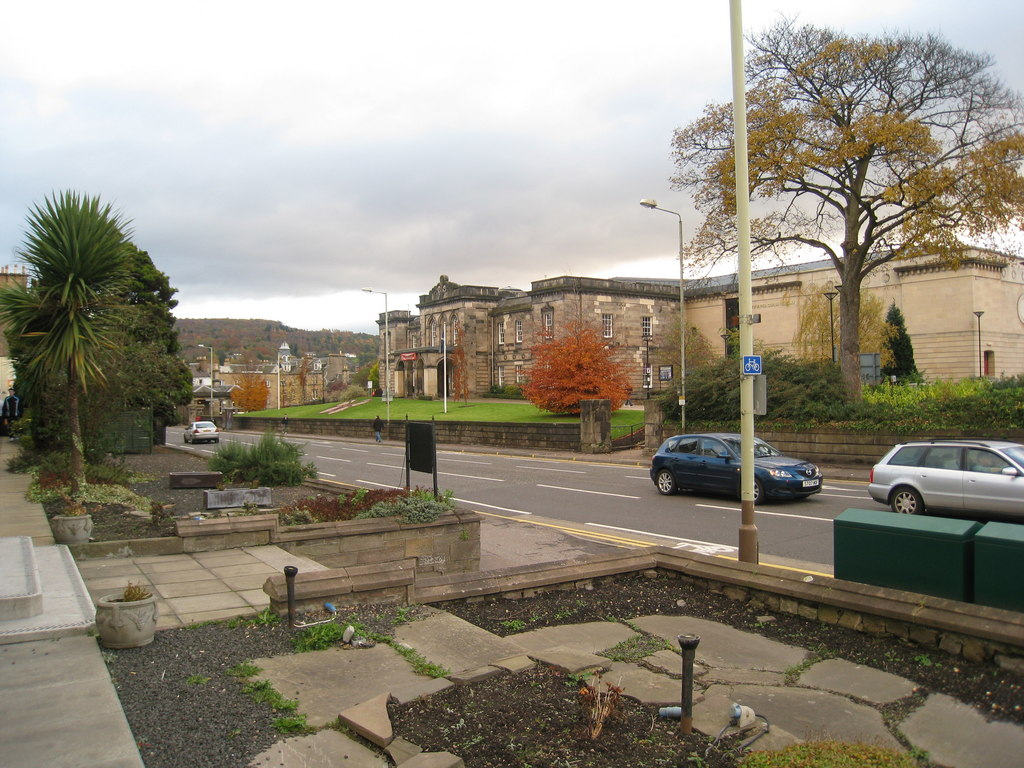 A.K.Bell Public Library, Perth